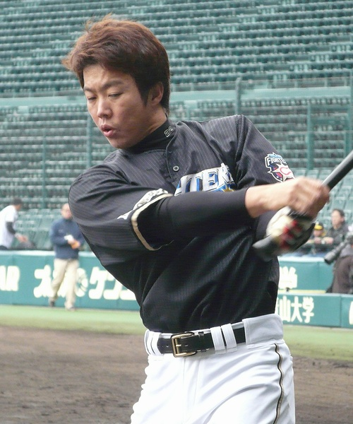 Shinya Tsuruoka, catcher of the Hokkaido Nippon-Ham Fighters, at Hanshin Koshien Stadium.